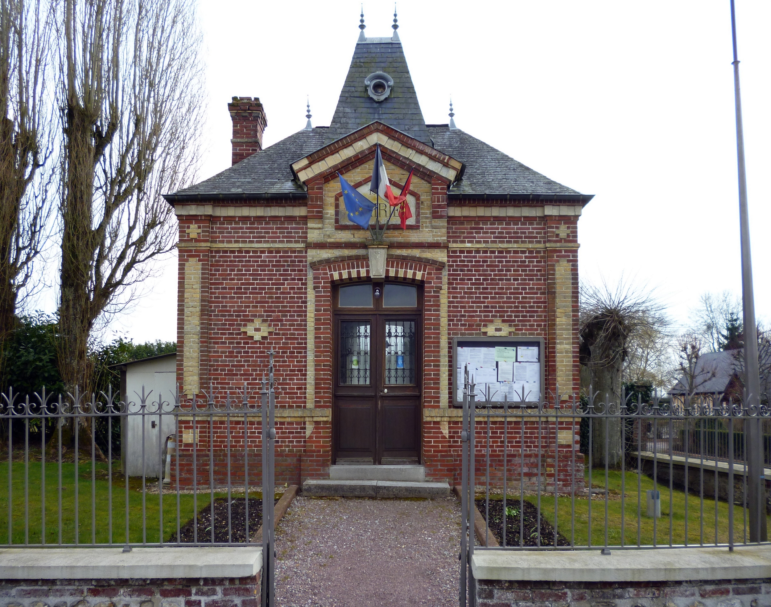 Town hall of Saint-Benoît-des-Ombres (Eure, France). It was built in 1905.